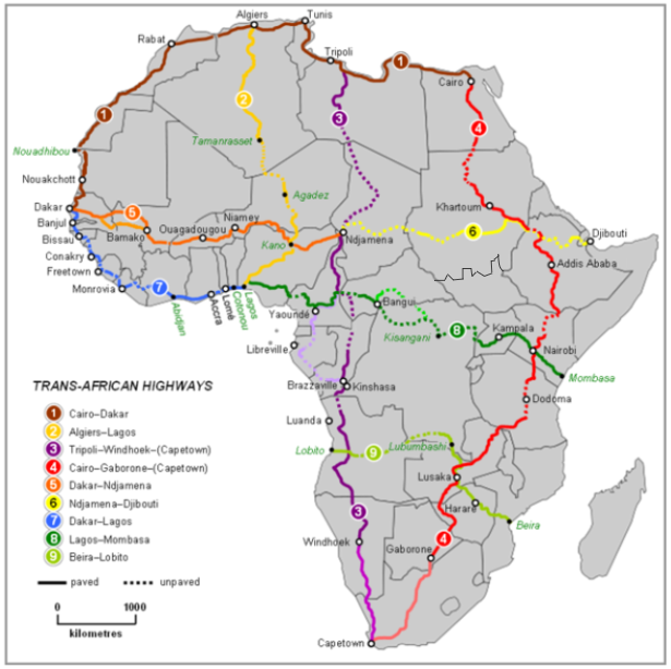 Remix of Map of Trans-African Highways by Rexparry sydney with S. Sudan added.